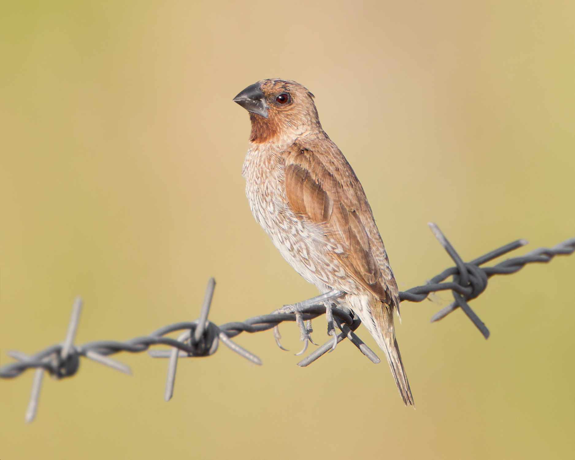 Scaly-breasted Munia (Lonchura punctulata), Surin, Thailand